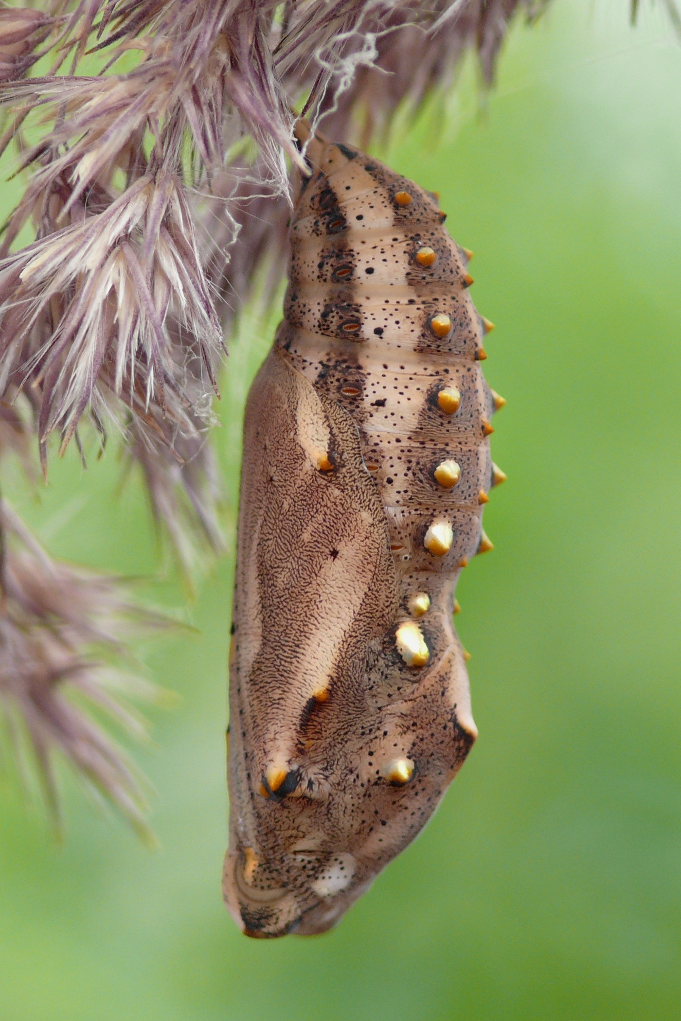 Pupa of Painted Lady